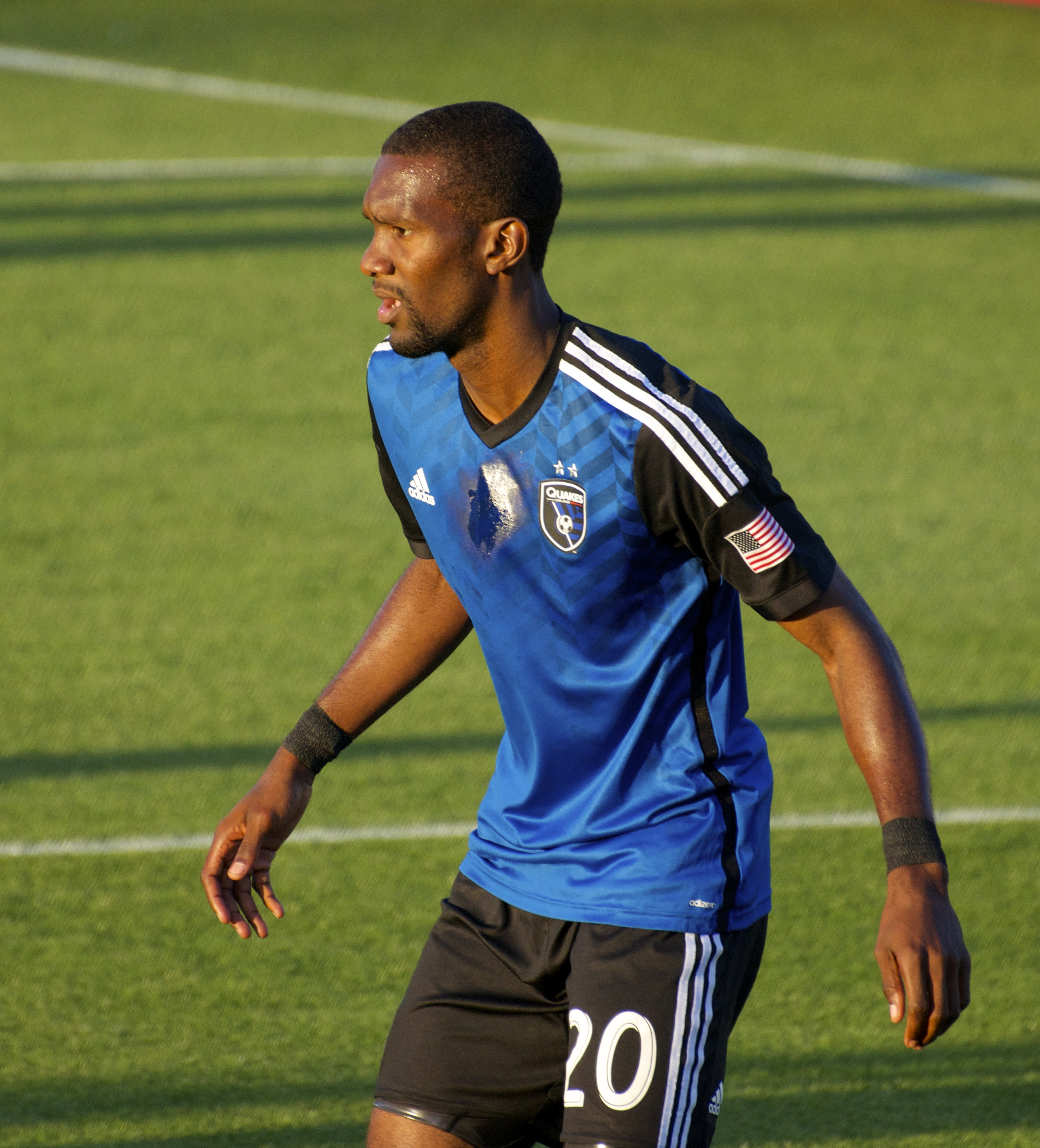 Shaun Francis, Houston Dynamo vs San Jose Earthquakes, Buck Shaw Stadium, 25 May 2014